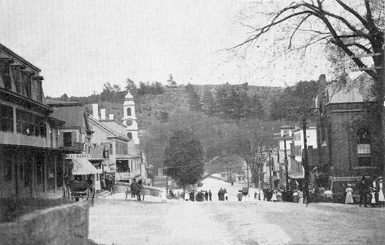 Main Street East, Peterborough, New Hampshire